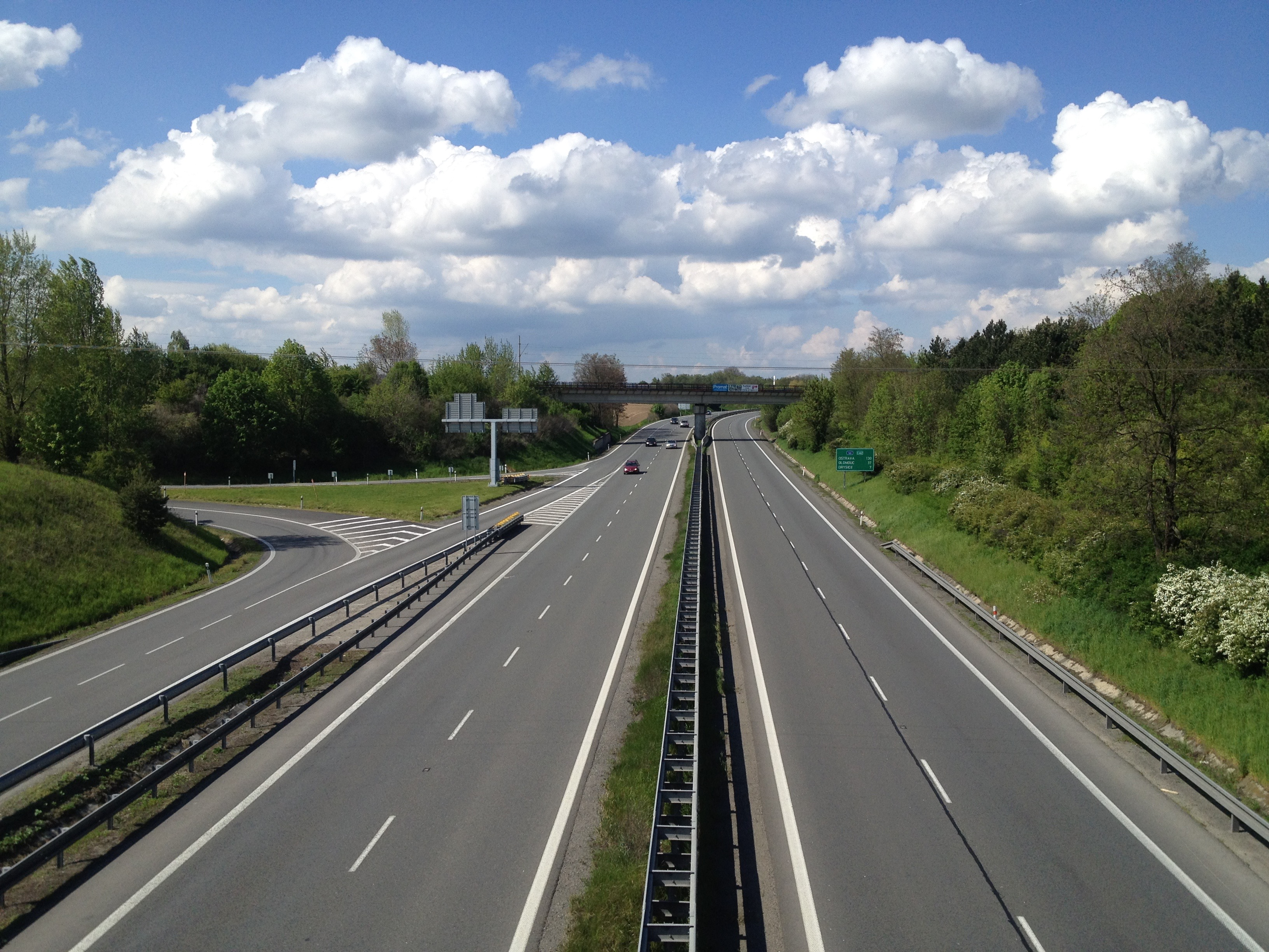 Czech highway D46 on its 1st kilometr in direction to Olomouc at interchange Vyškov.